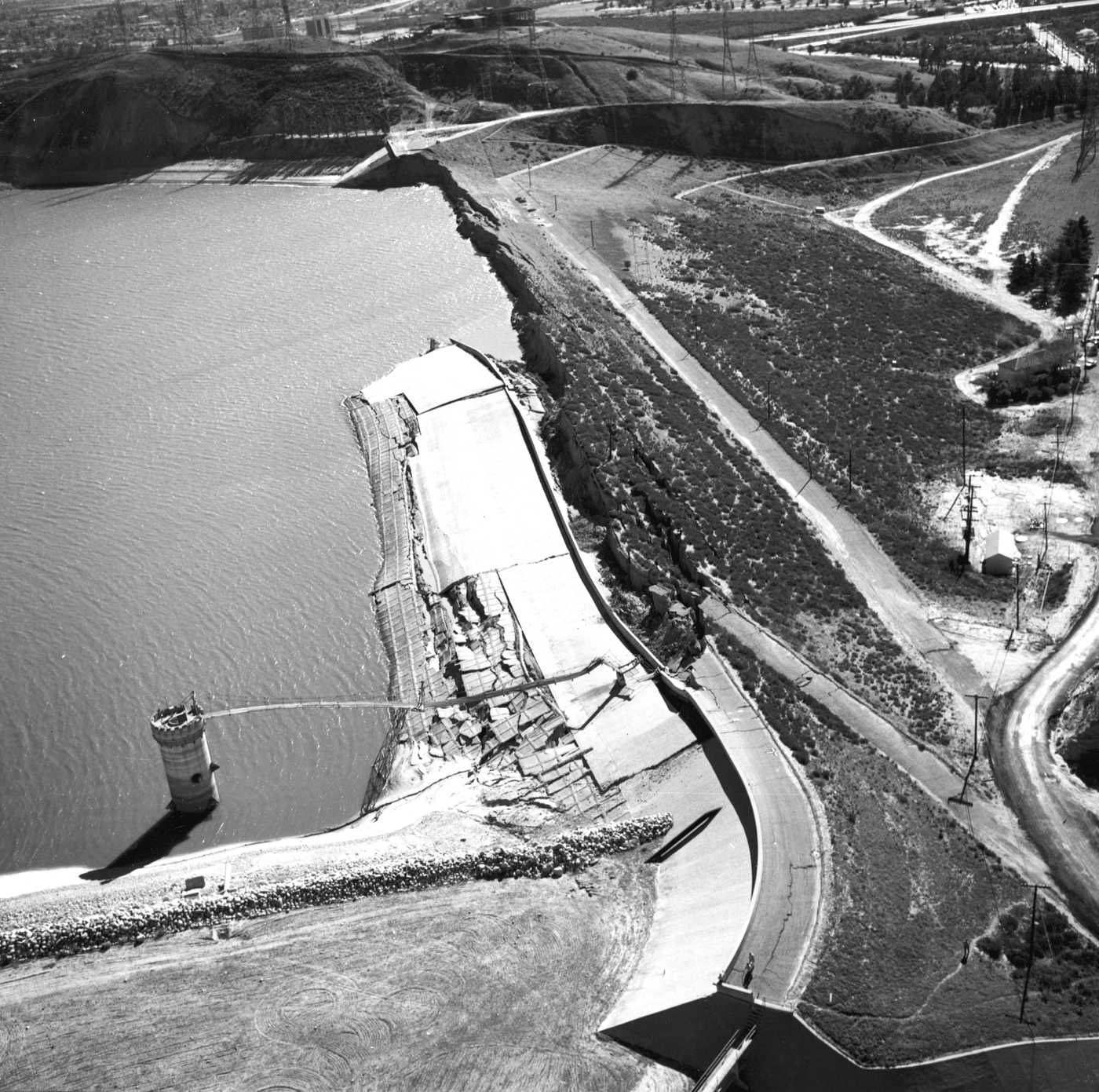 Lower Van Norman Reservoir Dam, Feb 10, 1971 — after the 1971 San Fernando earthquake in Los Angeles County, California. Oblique aerial view looking east, over the northern San Fernando Valley. Seismic shaking caused failure of dam: 1.) concrete dam facing and service road have slid with a portion of dam into the reservoir; 2.) there is an extensive fracturing on remaining front of earth-fill dam; 3.) previous water level can be seen on concrete facing; 4.) considerable water had been emptied by the time of the photo, however a second intake has toppled and is submerged.